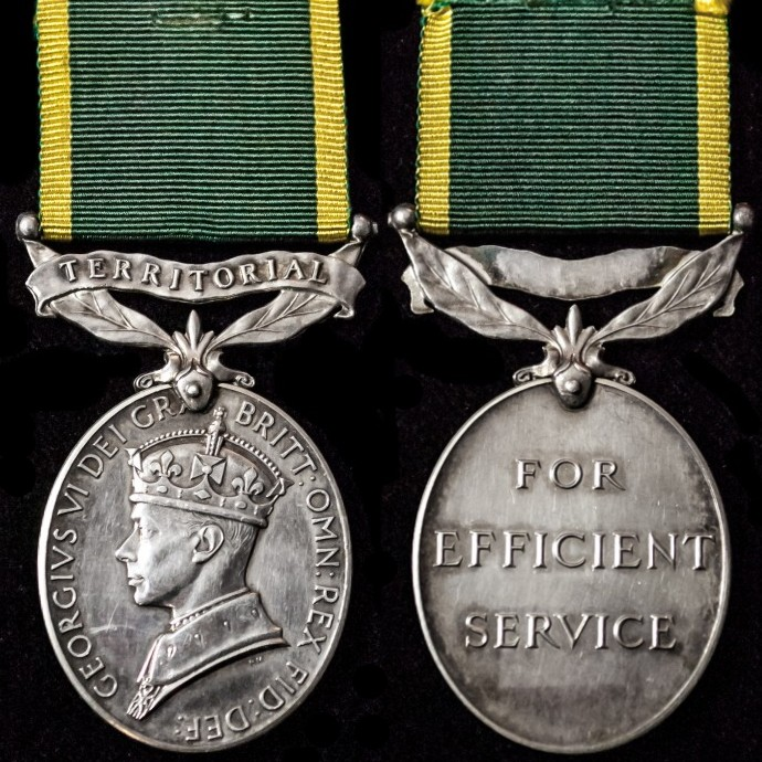 The second King George VI version of the Efficiency Medal (Territorial)